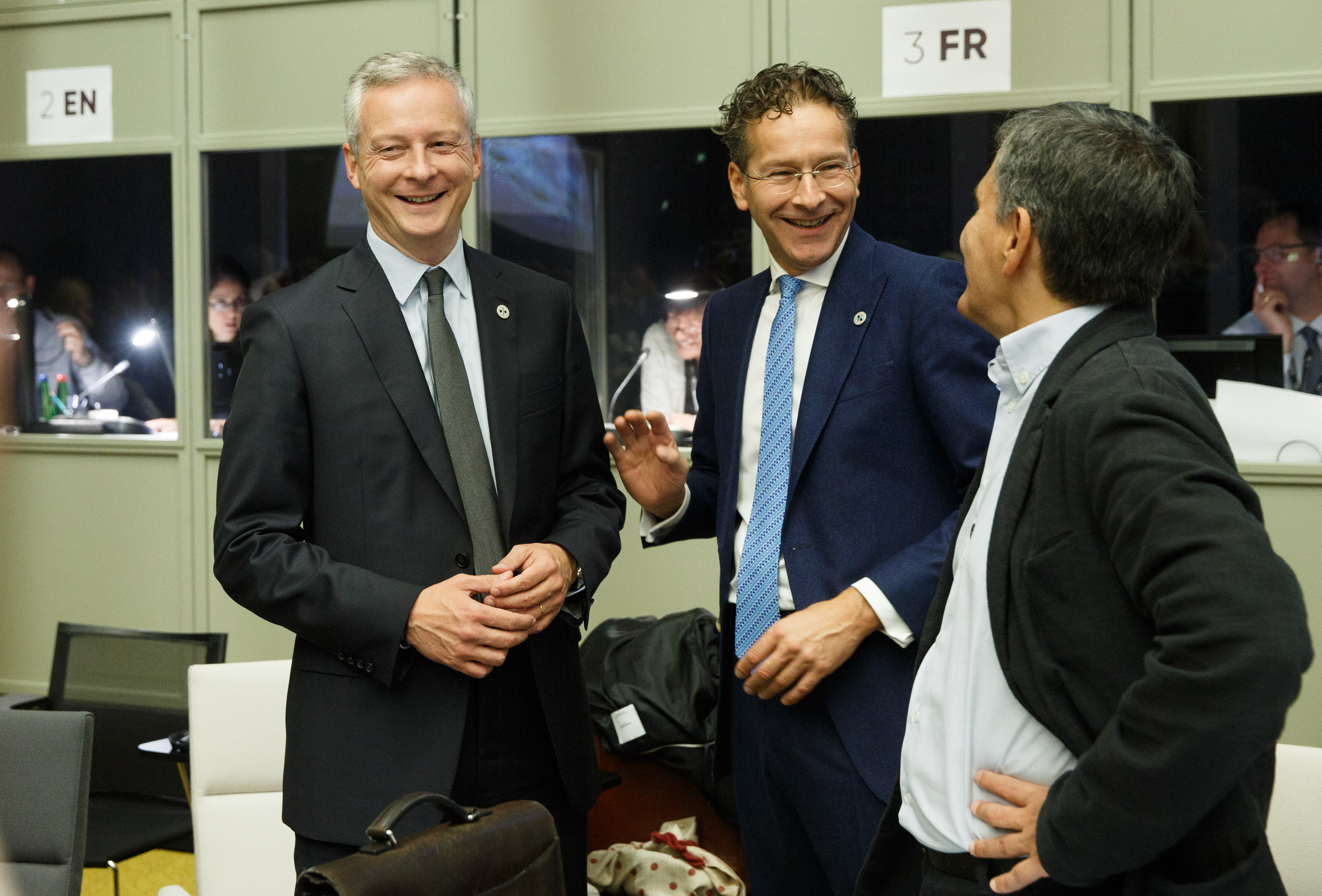 (l-r) Bruno Le Maire, Minister, Ministry of Economy and Finance, France; Jeroen Dijsselbloem, Minister, Ministry of Finance, The Netherlands; Euclid Tsakalotos, Minister, Ministry of Finance, Greece Photo: Raul Mee (EU2017EE)